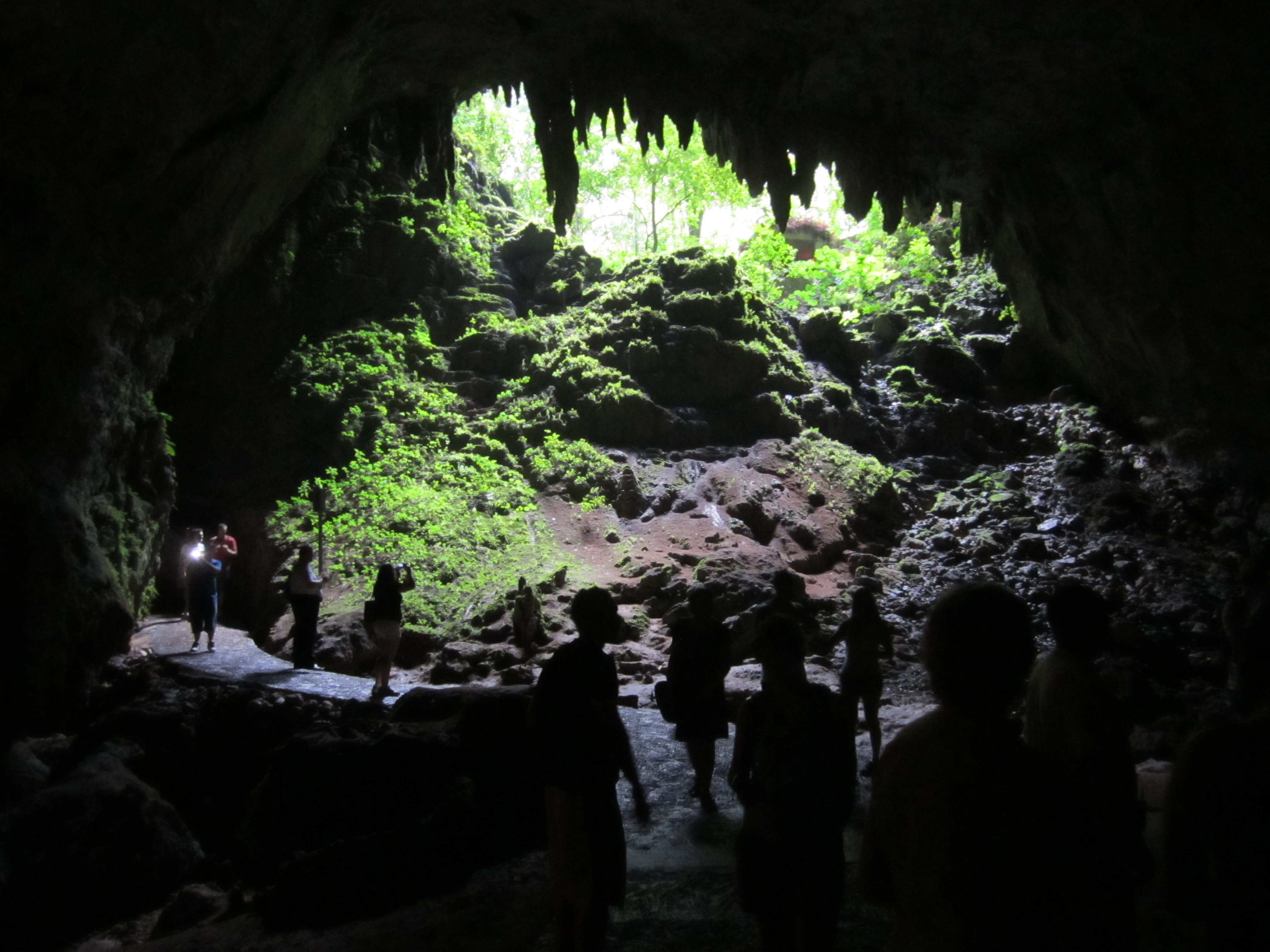 Entrance of the Cueva Clara (Bright Cave), Parque de las Cavernas del Río Camuy (Camuy River Cave Park), Puerto Rico